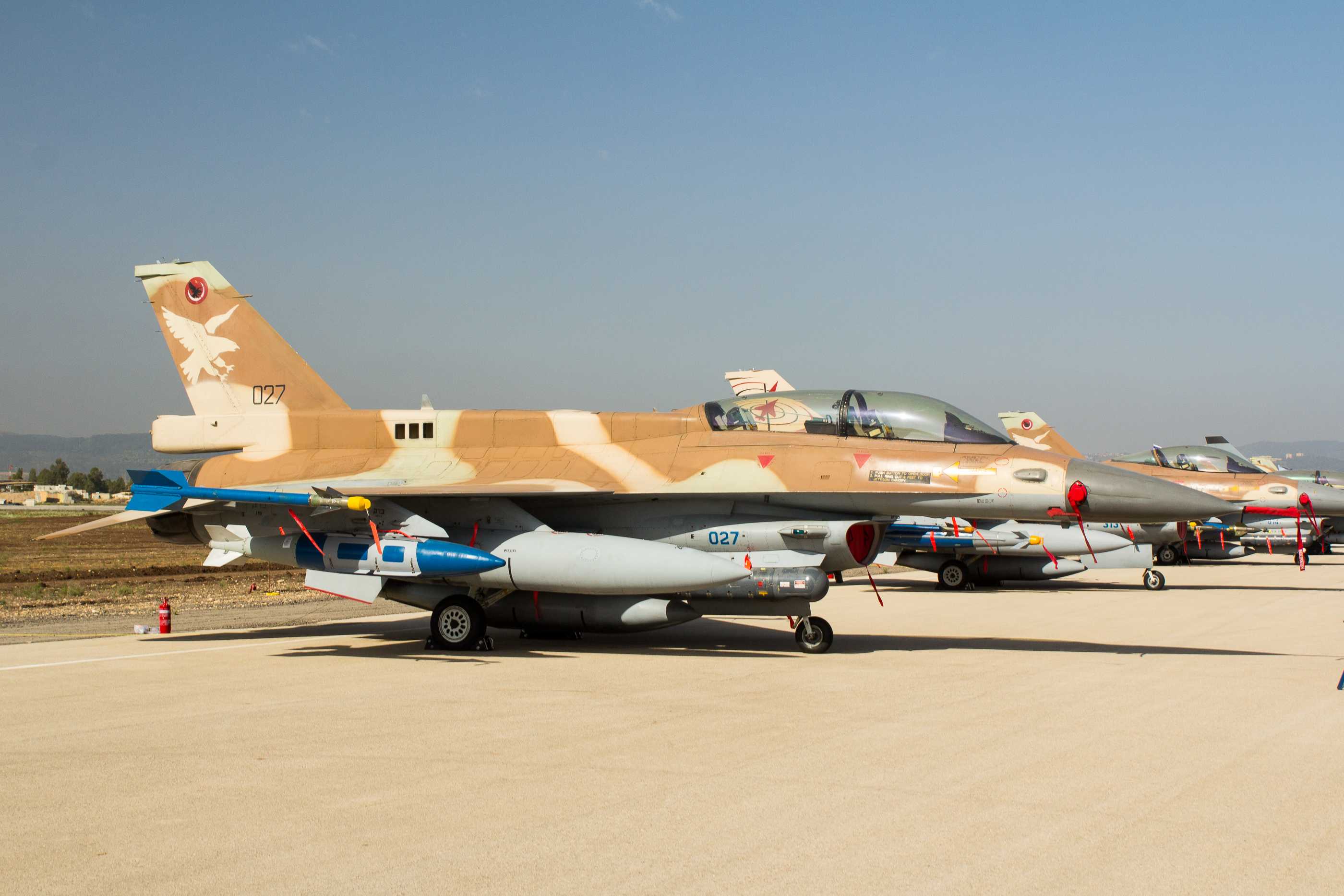 109 Squadron F-16D Barak, at the Israeli Air Force exhibition at Ramat David AFB on Israel's 69th Independence Day.